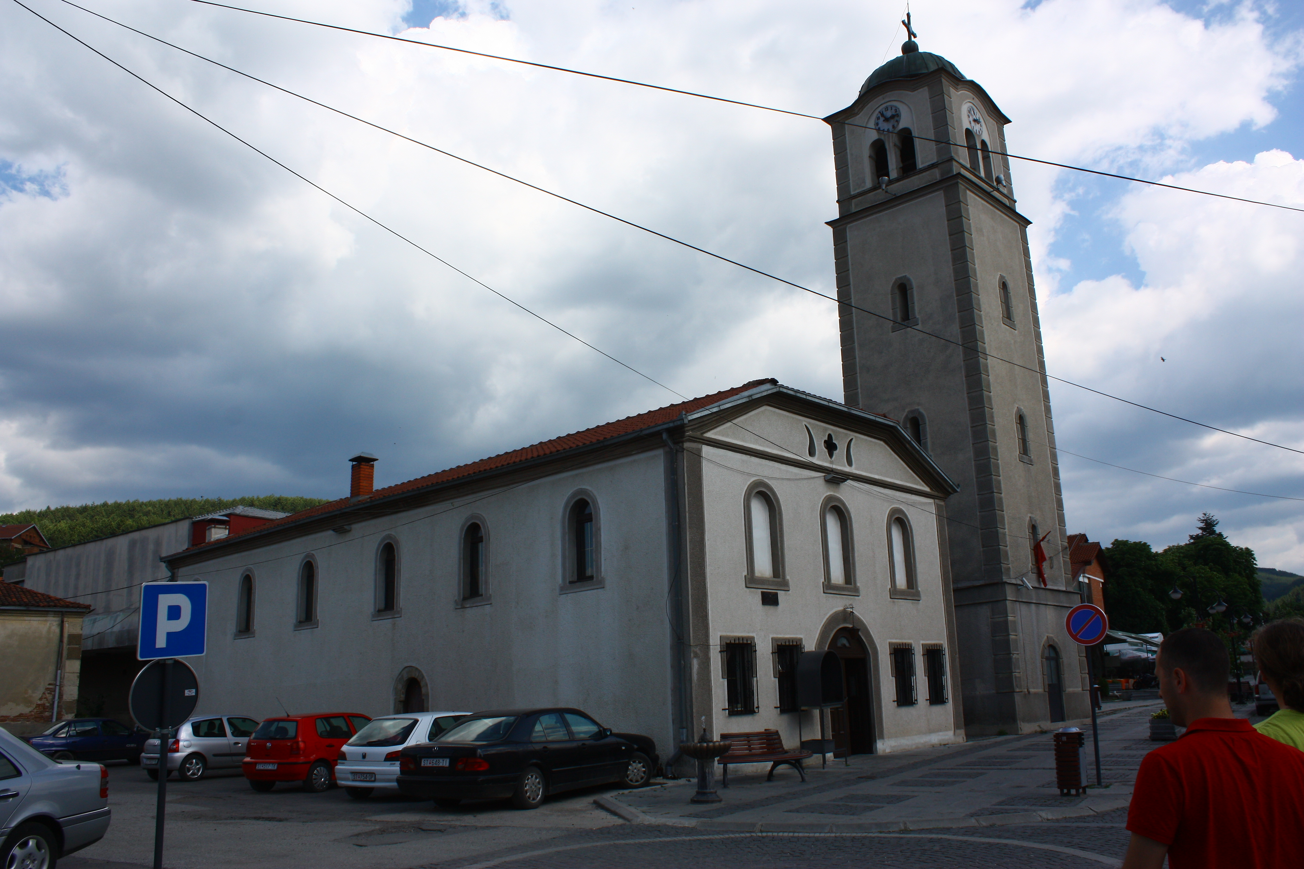 Nativity of the Theotokos Church inBerovo, Macedonia